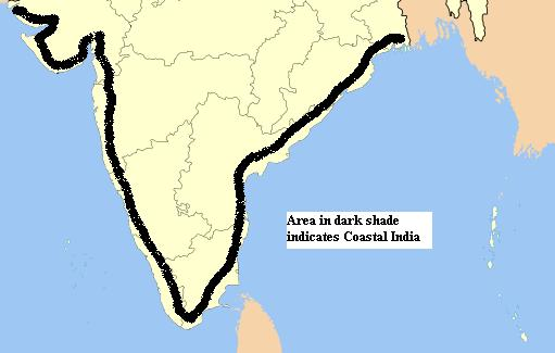 This map shows Coastal India which spans from the south west Indian coastline along the Arabian sea from the coastline of the Gulf of Kutch in its western most corner and stretches across the Gulf of Khambhat, and through the Salsette Island of mumbai along the Konkan and southwards across the Raigad region and through Kanara and further down through Mangalapuram or Mangalore and along the Malabar through Cape Comorin in the southernmost region of South India with coastline along the Indian Ocean and through the Coromandal Coast or Cholamandalam Coastline on the South Eastern Coastline of the Indian Subcontinent along the Bay of Bengal through the Utkala Kalinga region until the Easternmost Corner of shoreline near the Sunderbans in Coastal East India.